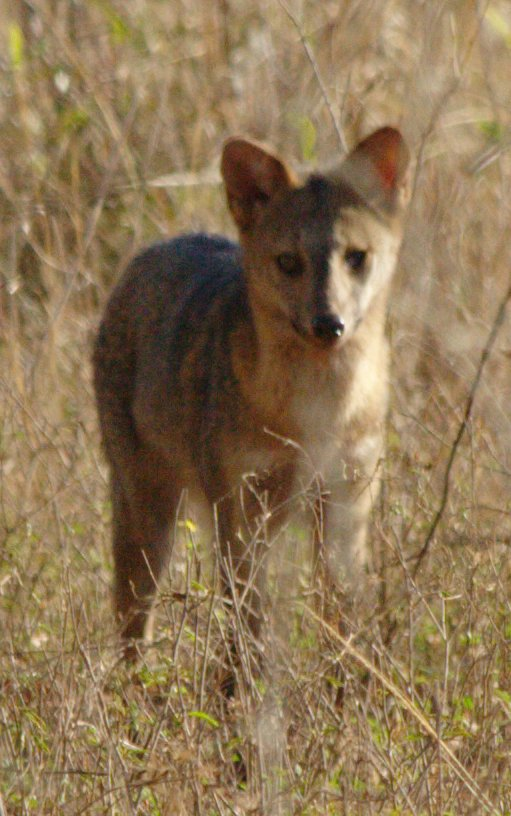 Crab-eating Fox (Cerdocyon thous) from the Pantanal, Mato Grosso near Pousada Rio Claro